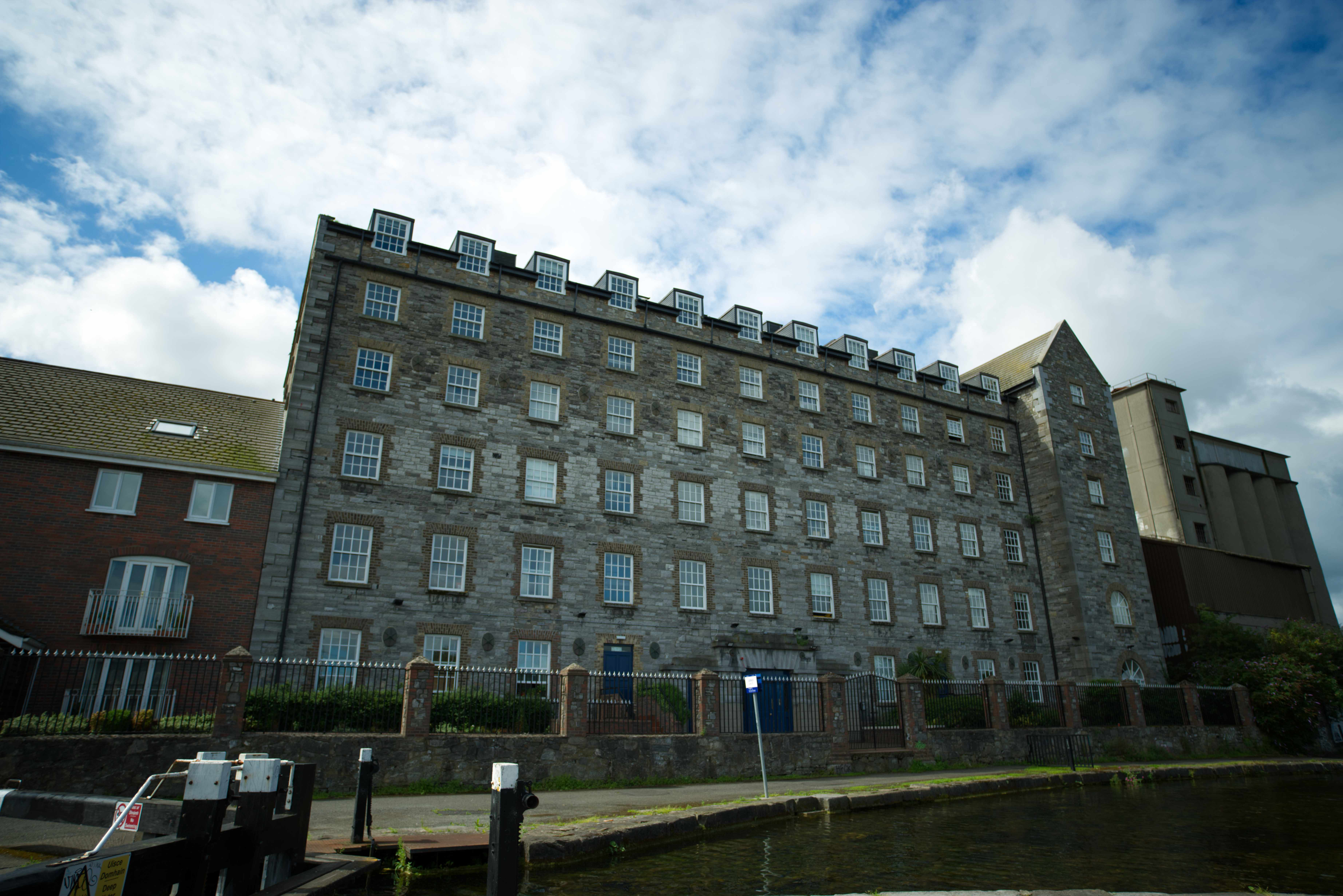 The Old Mills Apartments. Formerly the site of Ranks Flour Mills.